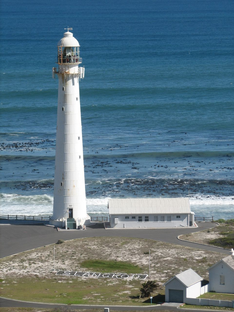 Operational since 4 March 1919. This is the tallest cast iron tower on the South African Coast, 100 feet from base to its balcony. The lighthouse is equipped with a revolving electric light that emits four flashes every 30 seconds. Not all the flashes are visible with each revolution from any one point. It is one of 4 strongest lighthouses in Southern Africa with a range of 33 sea miles. The light has an approximate candlepower of 5 000 000 C.D. The lighthouse is a 33 meter circular cast iron tower, painted white. The focal plane of the light is 41 meters above high water which means it often remains visible below dense mist. Published at